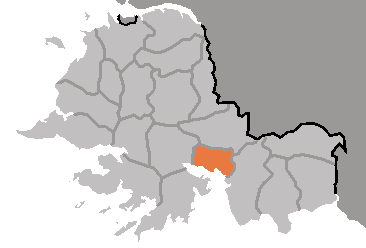 Map of Haeju, Hwanghae-namdo, DPRK, 2006